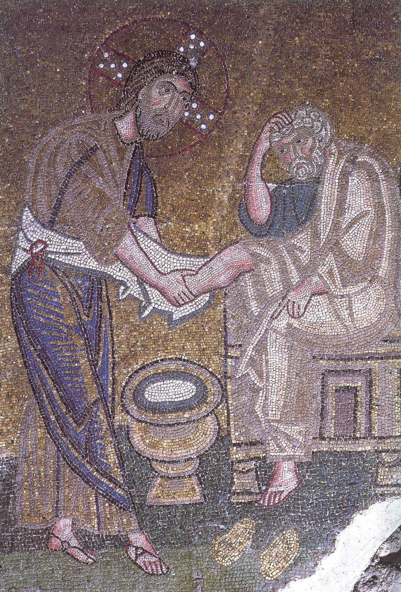 Christ washing the feet of Saint Peter. Detail of the inner narthex mosaic "Washing of the Apostles' Feet".